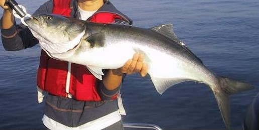 A large bluefish (Pomatomus saltatrix), about 20 pounds.